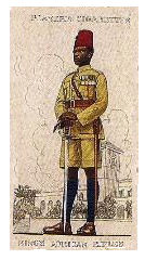 Players Cigarette Card